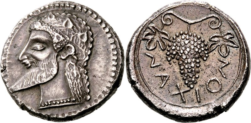 SICILY, Naxos. Circa 530-510 BC. Drachm (Silver, 5.73 g 12), Chalcidian standard, circa 520. Head of Dionysos to left, with long, pointed beard, ivy wreath in his hair and a necklace of pearls bordered by two plain torcs at the truncation; around, border of dots within two linear circles. Rev. ΝΑΧΙΟΝ Bunch of grapes on stalk with two leaves.